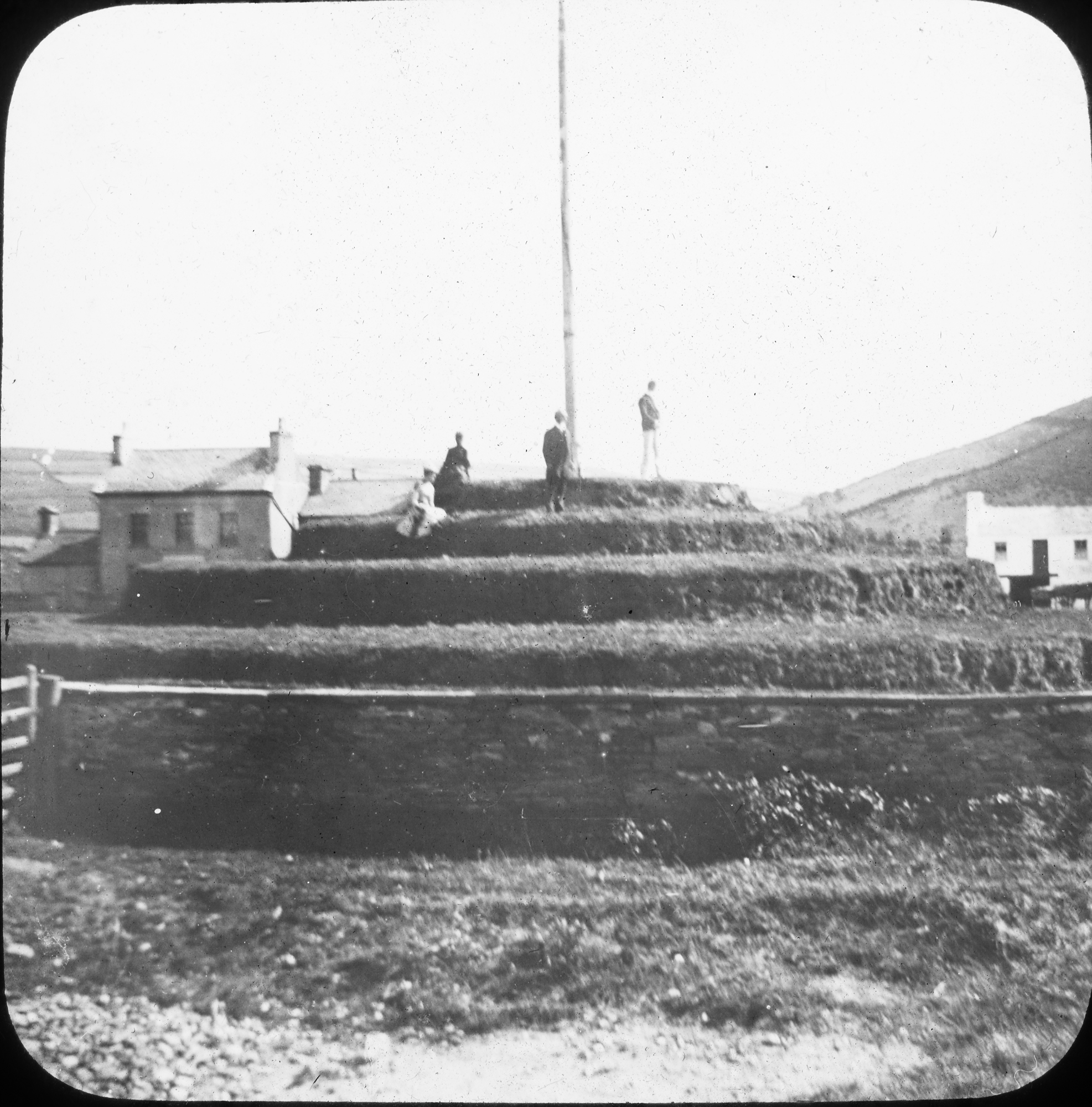 The Turnwake it says! As if that is enough in itself to describe and locate a circular mound with a flagpole in its centre. Well, I must admit that I never heard of it before nor did I ever see an image of it before so I will await with bated breath to discover what have I been missing! Signed, A Cranky, (Morning Mary) [/photos/91549360@N03/ O Mac] quite quickly identified this as the mound of Tynwald Hill at St Johns, the Isle of Man. Similar to Dublin's "Thingmount" (that we'd discussed in recent months), the hill's mound was an ancient Norse/Viking meeting place (part parliament, part court) - and the island's legislature still sits ceremonially at the spot annually in early July. Photographer: Thomas H. Mason Collection: Mason Photographic Collection Date: ca. 1890-1910 NLI Ref: M50/9 You can also view this image, and many thousands of others, on the NLI’s catalogue at